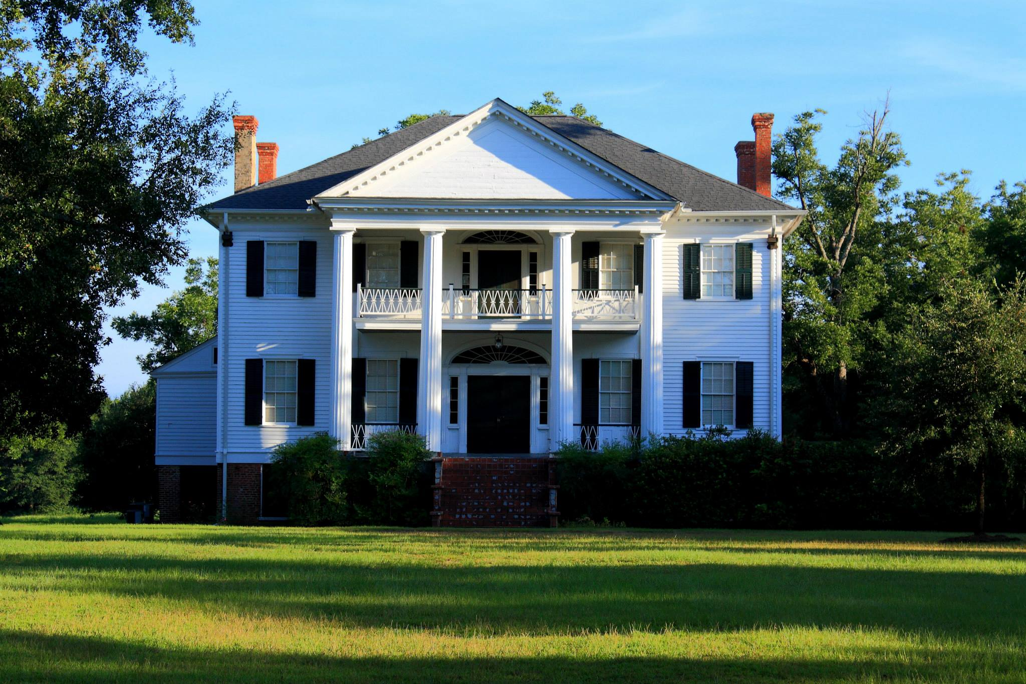 Youpon Plantation, also known as the Mathews-Tait House, near Camden, Wilcox County, Alabama. Established in 1840.